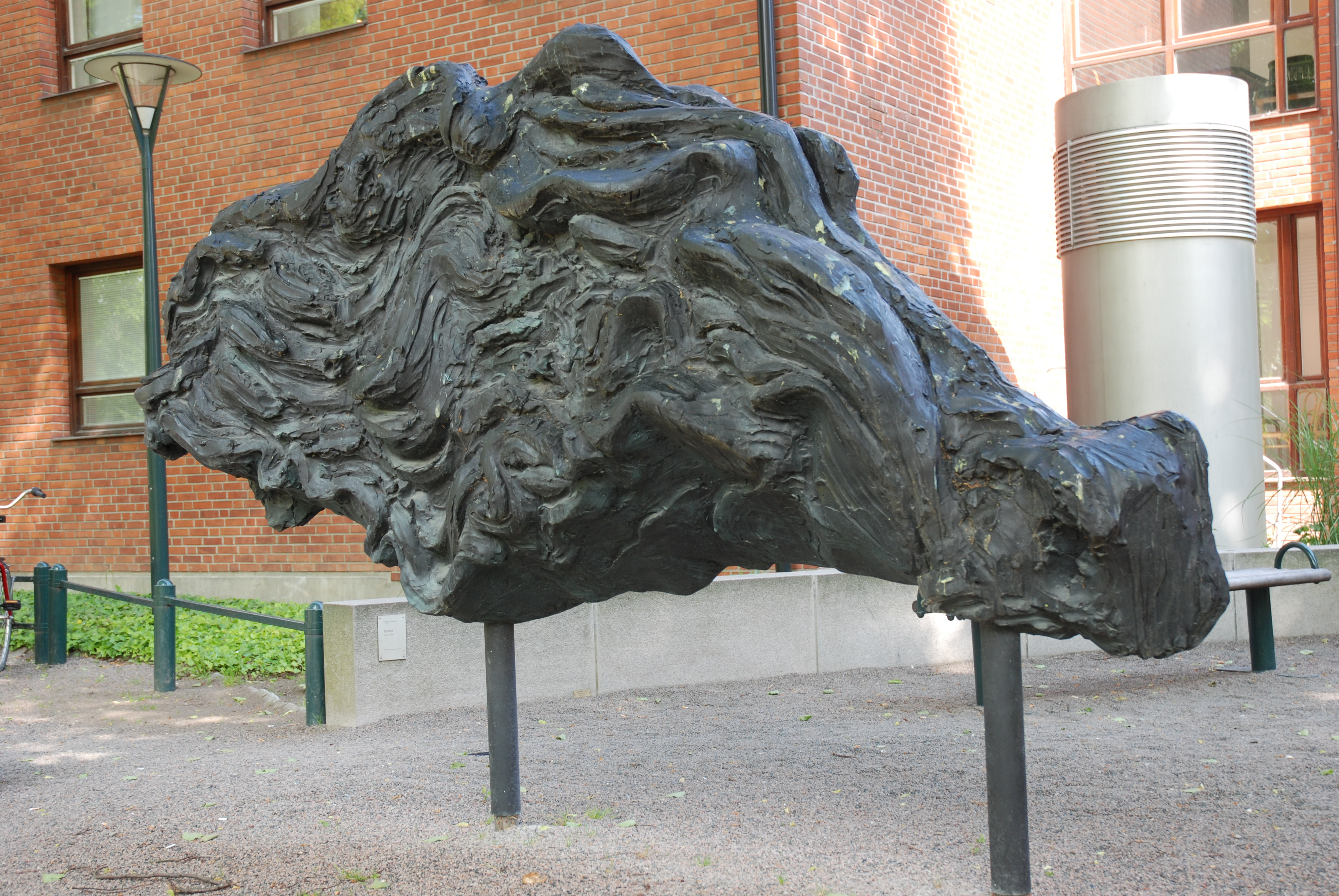 Kirsten Ortwed' s Syntax, 2004, Lund, Sweden